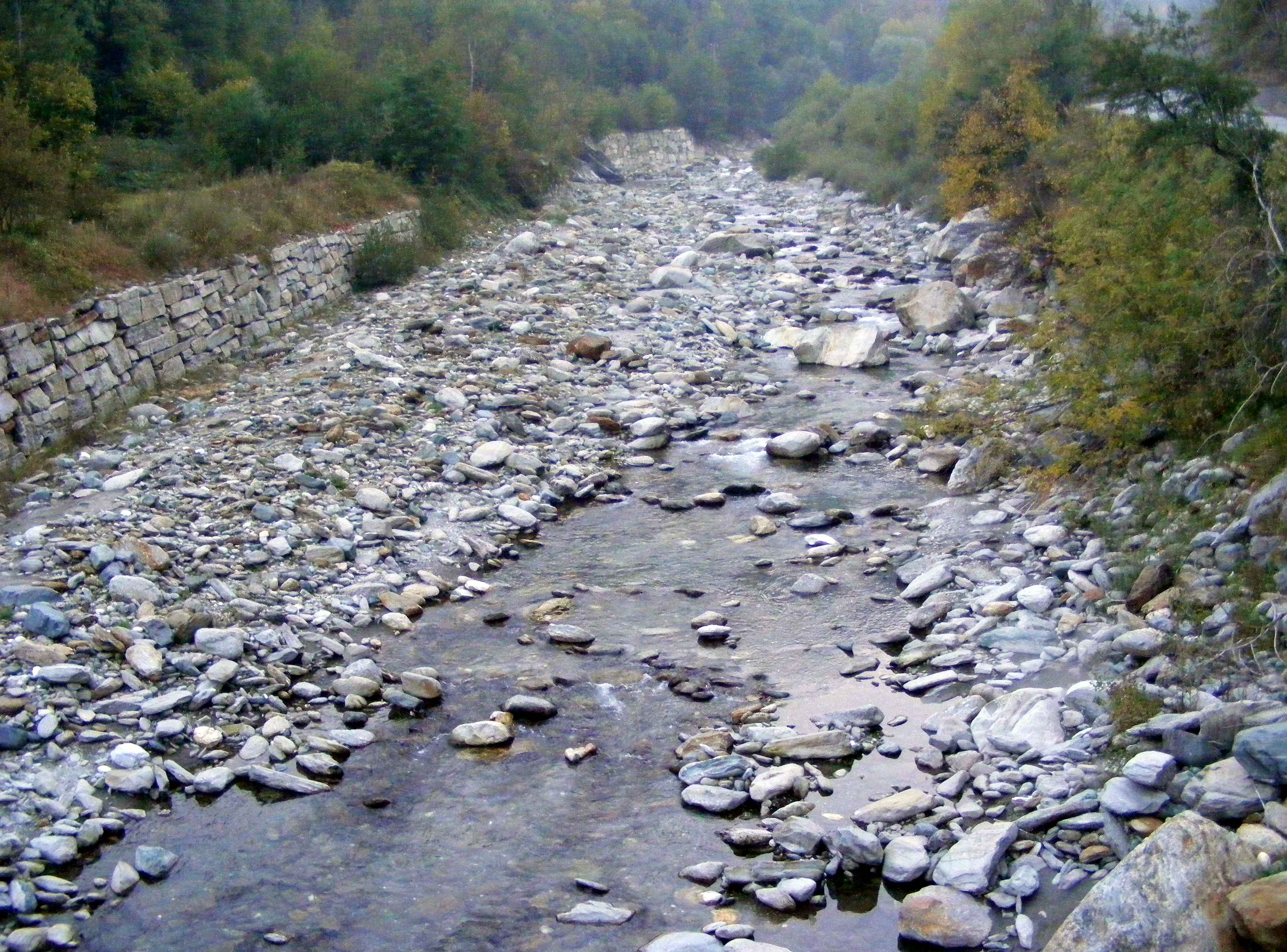 Germanasca creek from Chiotti Superiore bridge (Perrero, TO, Italy)